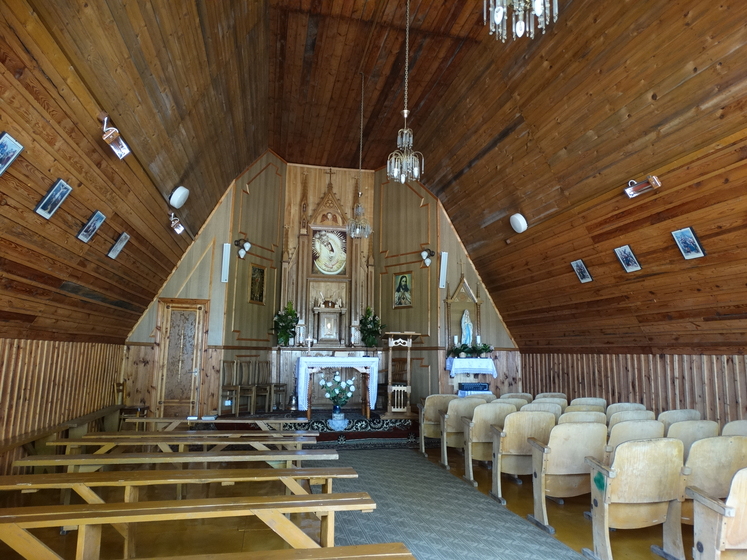 Chapel, Dainava, Šalčininkai District, Lithuania